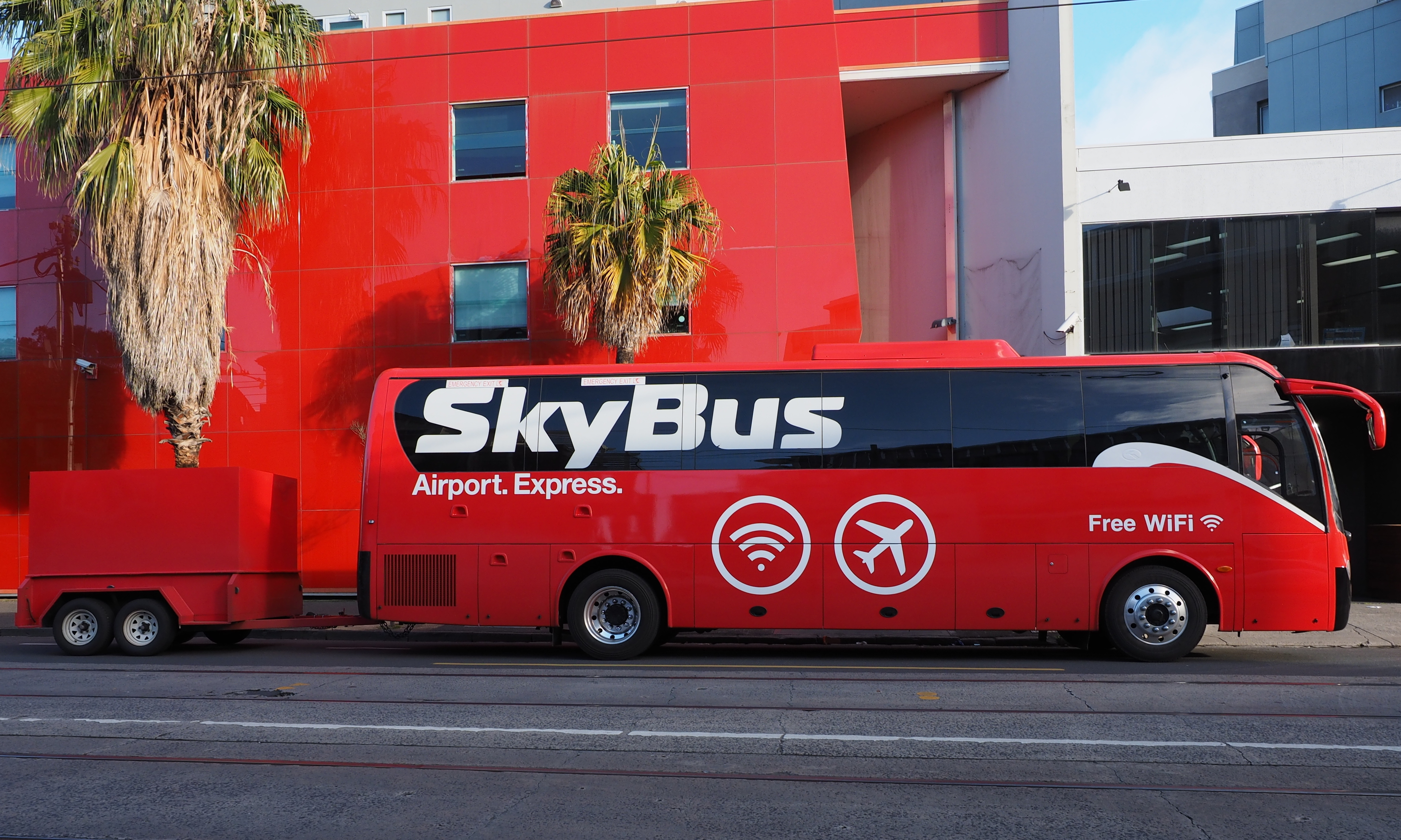 A SkyBus bus on Carlisle Street in St Kilda